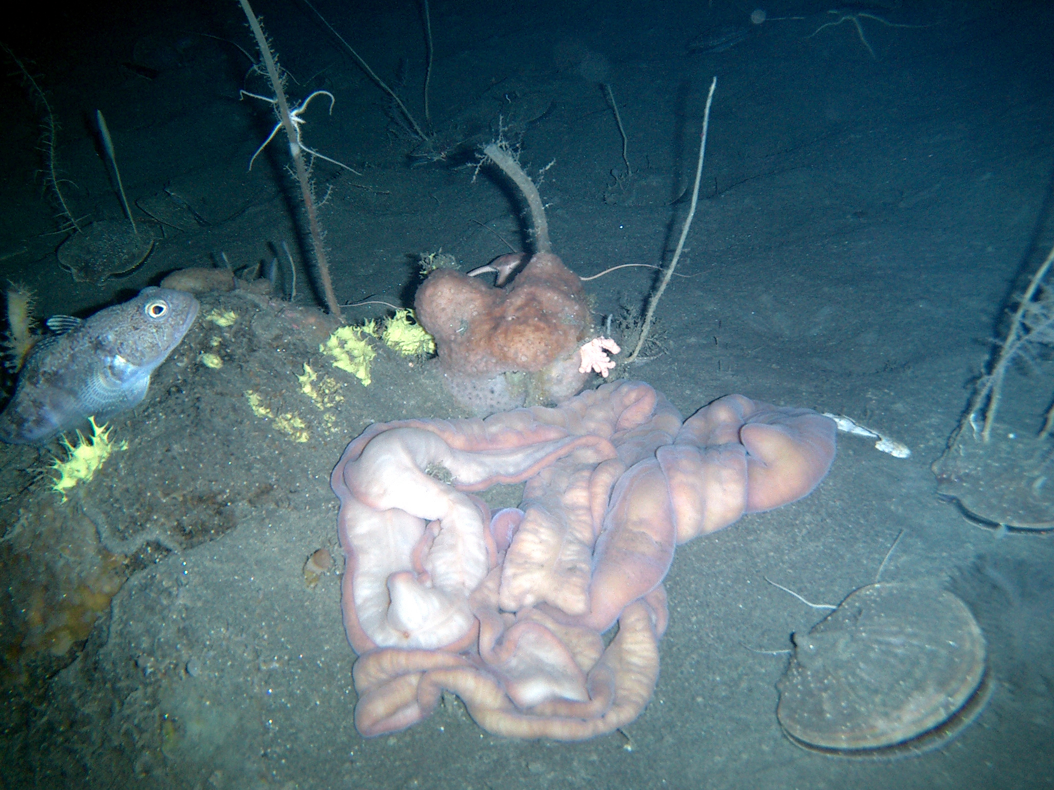 Parborlasia corrugatus, or the proboscis worm, is a scavenger that will comb the ocean floor eating sponges, jellyfish, anemones, and fish. This photo was taken in the Ross Sea, Antarctica, under 5 meters of sea ice. An underwater field guide to McMurdo Sound is available at